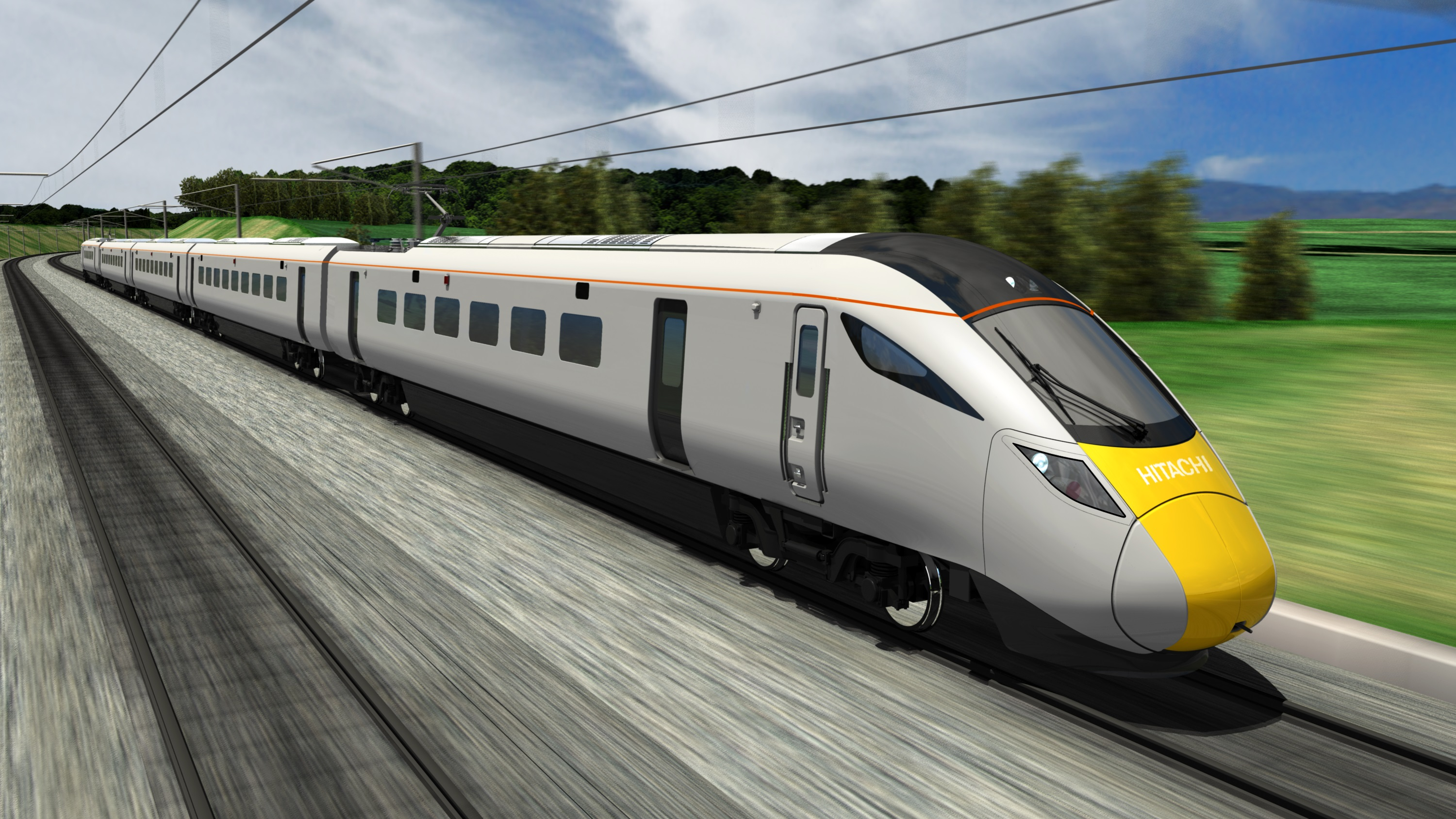 The Class 800 bi-mode trains and Class 801 electric trains will be built by Hitachi Rail Europe for the Department for Transport's Intercity Express Programme. The trains will come into service on the Great Western Main Line in 2017 and on the East Coast Main Line in 2018. Manufactured in Newton Aycliffe, County Durham.